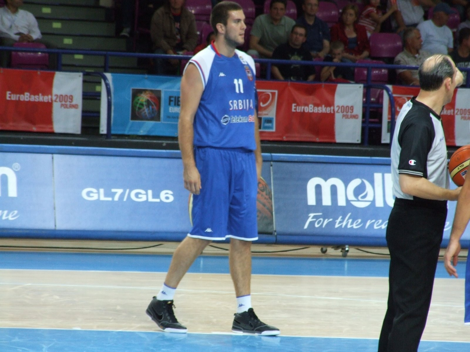 Slovenia vs. Serbia at EuroBasket 2009.